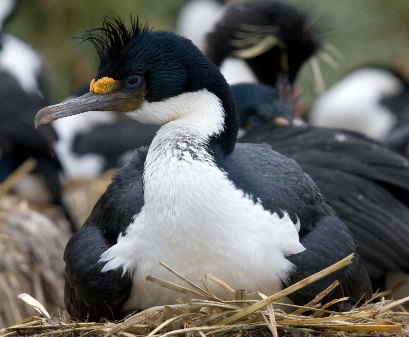 Imperial Shag from the Falkland Islands